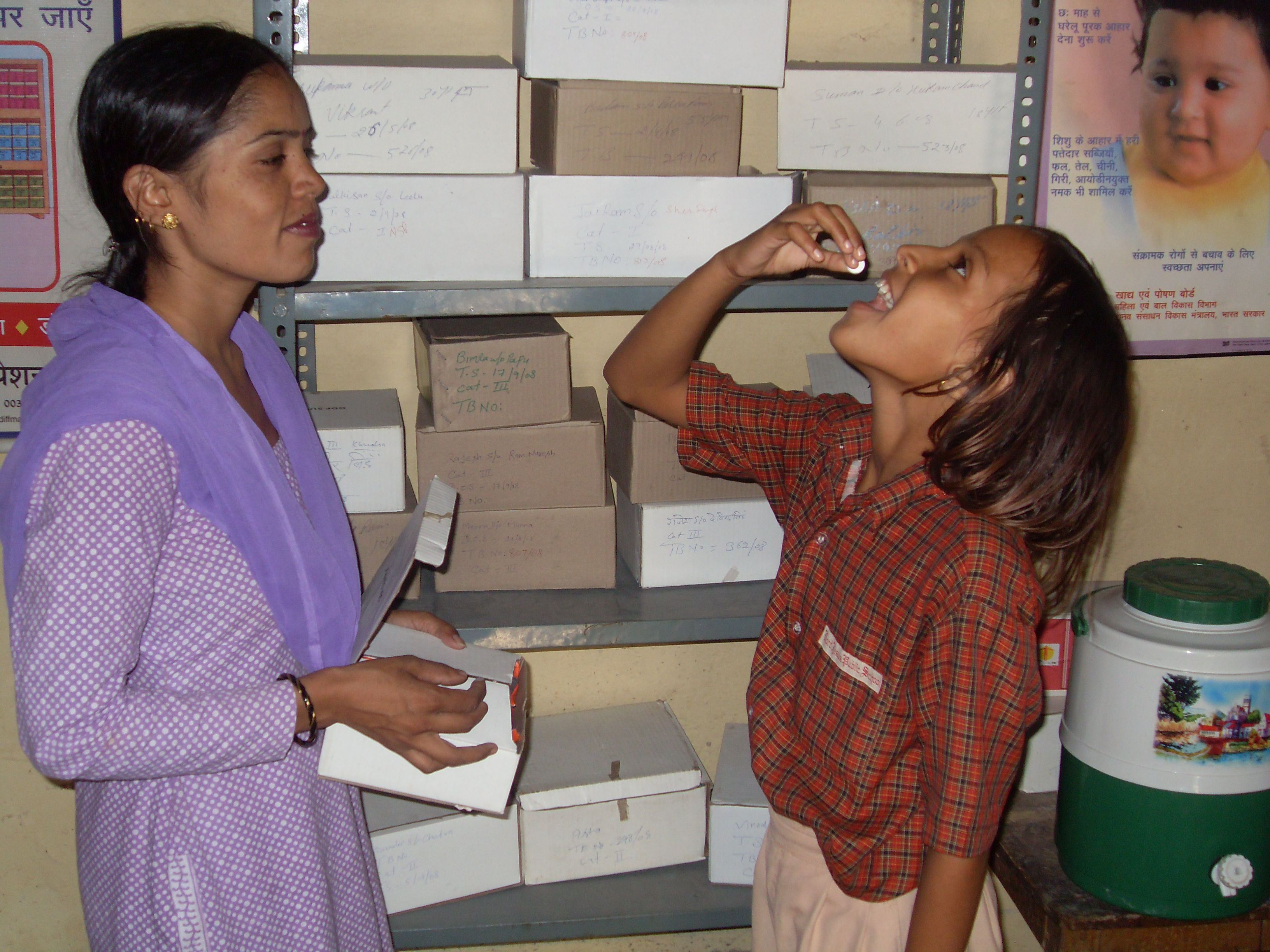 A community health worker of Operation ASHA giving a child medication for TB treatment